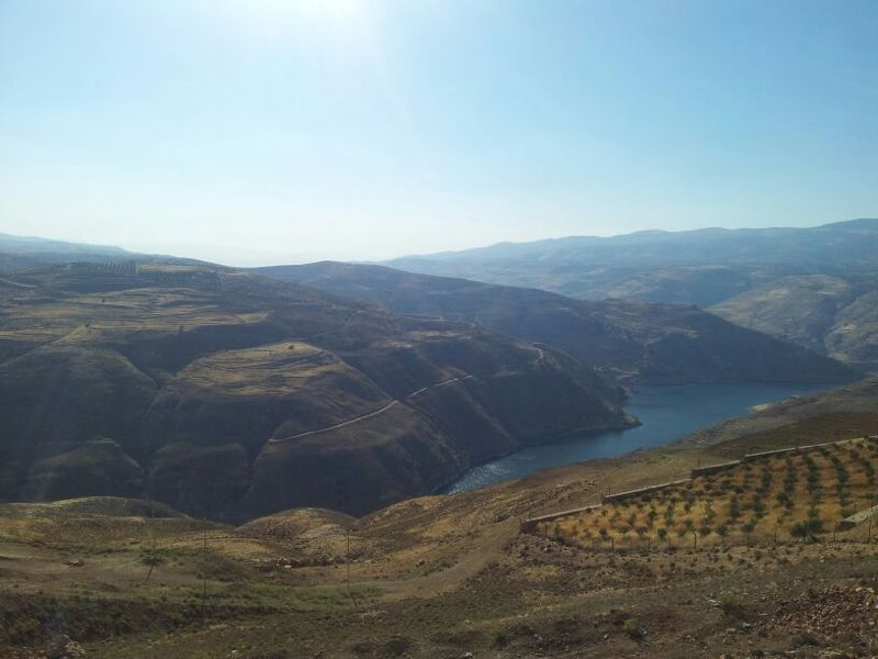 King Talal Dam - Jordan